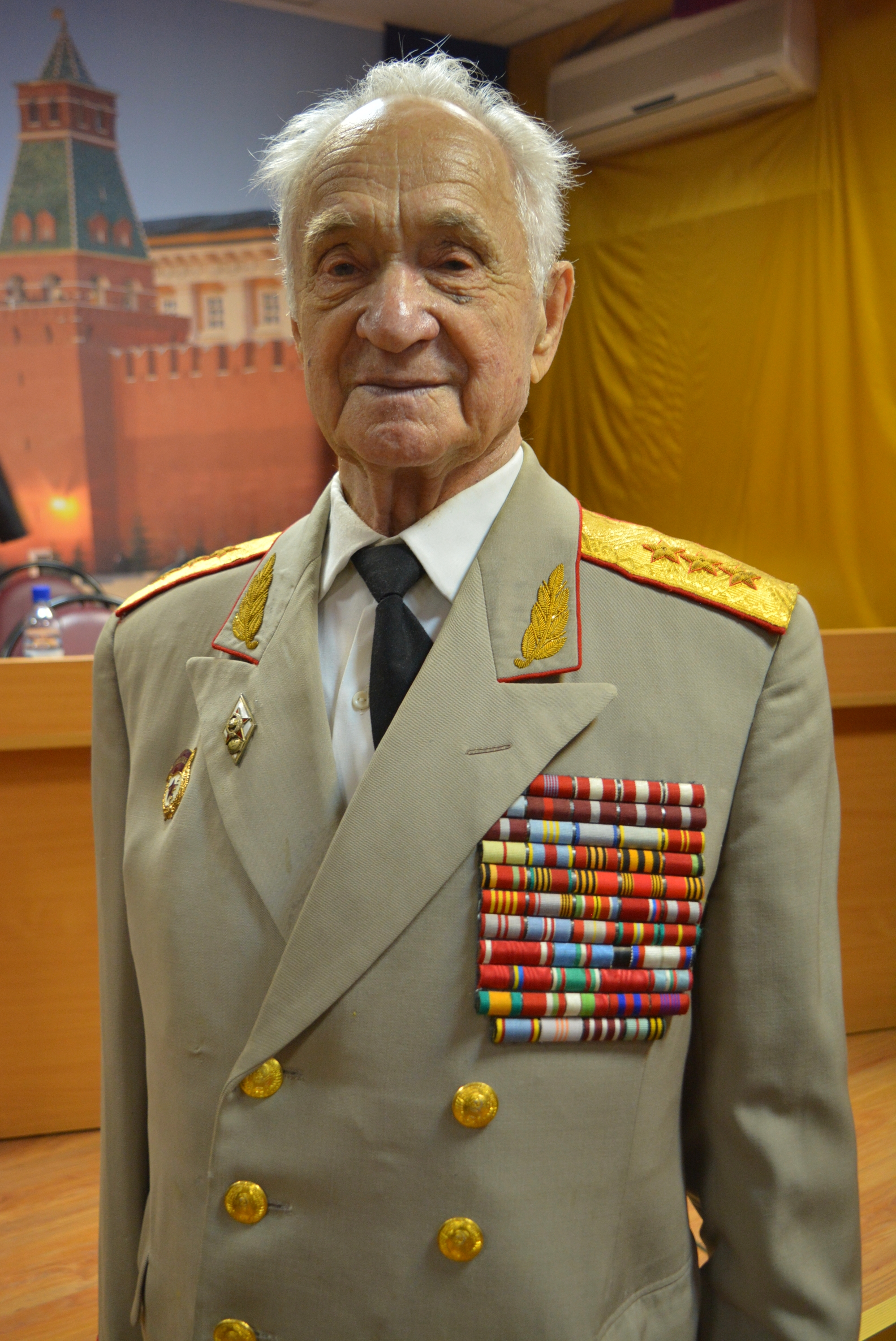 Anatoly Merezhko, soviet Colonel general.